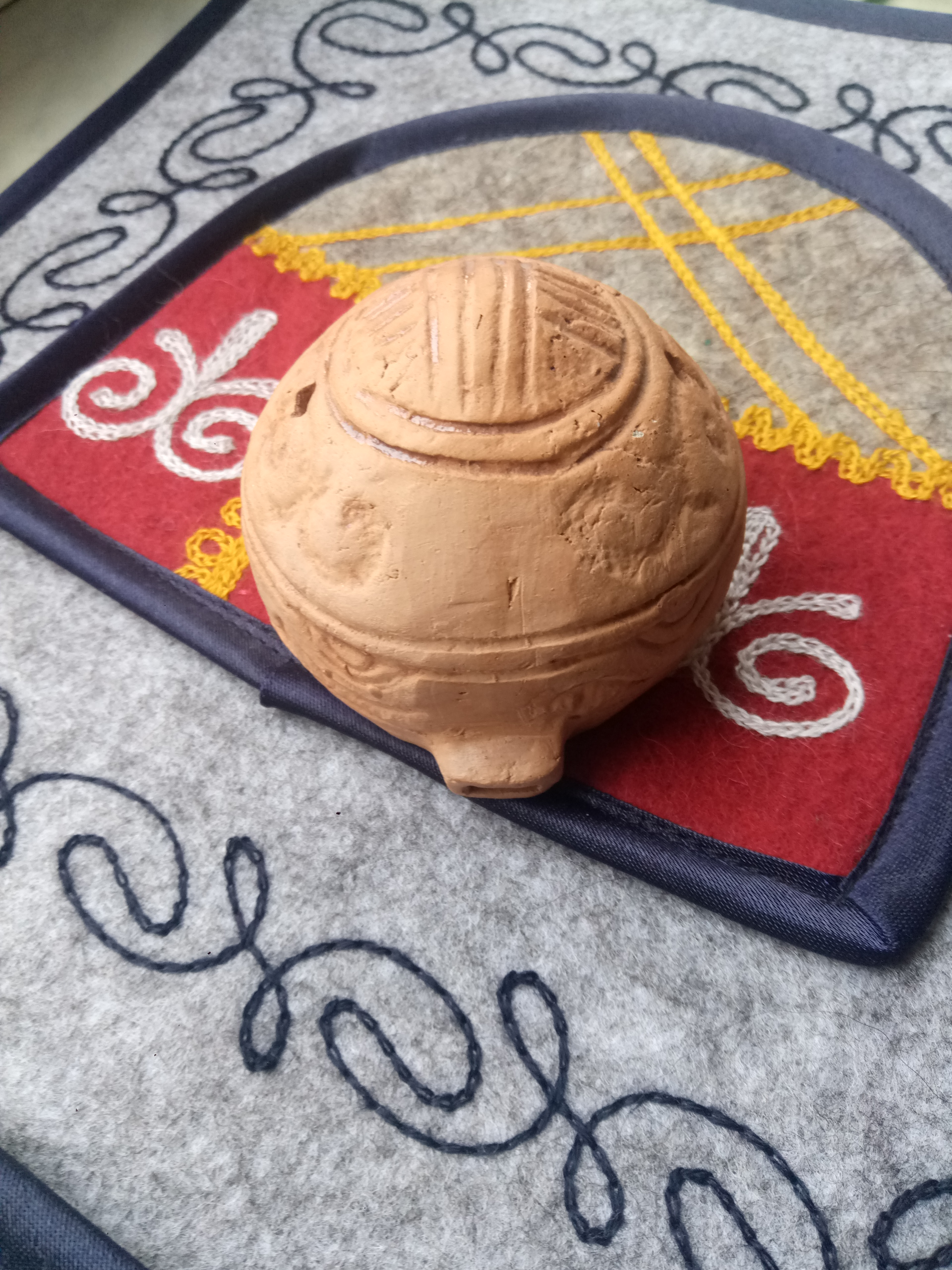 Chopo choor, a Kyrgyz and Kazakh traditional musical wind instrument